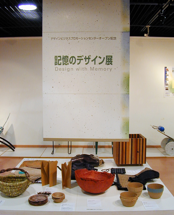 Designwithmemory exhibition japan